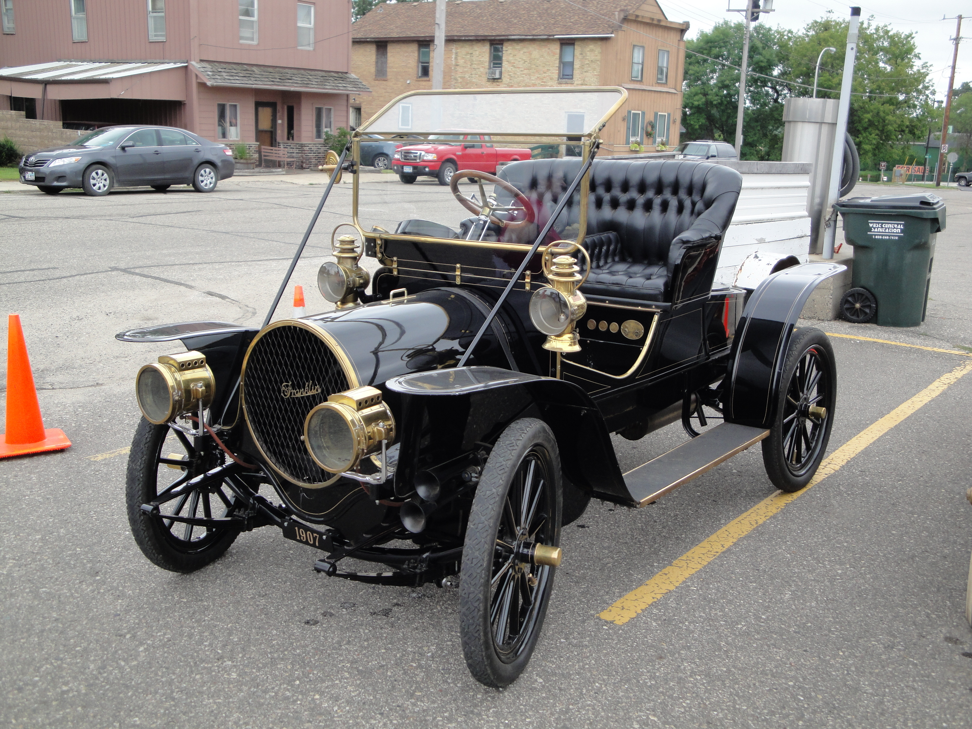 Silver Anniversary New London to New Brighton Antique Car Run August 12, Pre-Tour